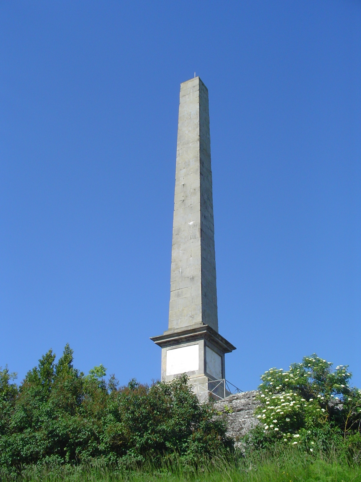 Erected in 1825, by Pierre-Paul Riquet's heirs with the inscription "À Pierre-Paul Riquet, baron de Bonrepos, auteur du canal des Deux Mers en Languedoc"